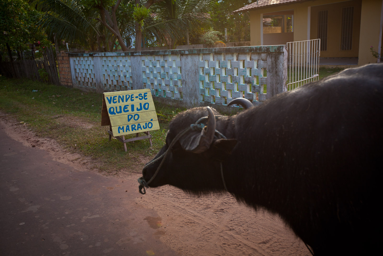 SALVATERRA, PA, BRASIL, 15-10-2013: Búfalo caminha pelas ruas de Salvaterra, Ilha do Marajó (PA). Foto: Zé Carlos Barretta.